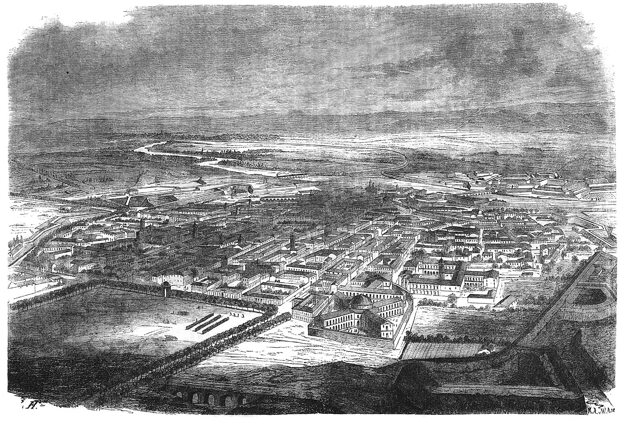 caption: "Alessandria."